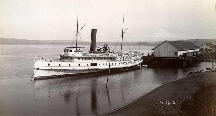 Steamer Olympian out of service in Tacoma circa 1890